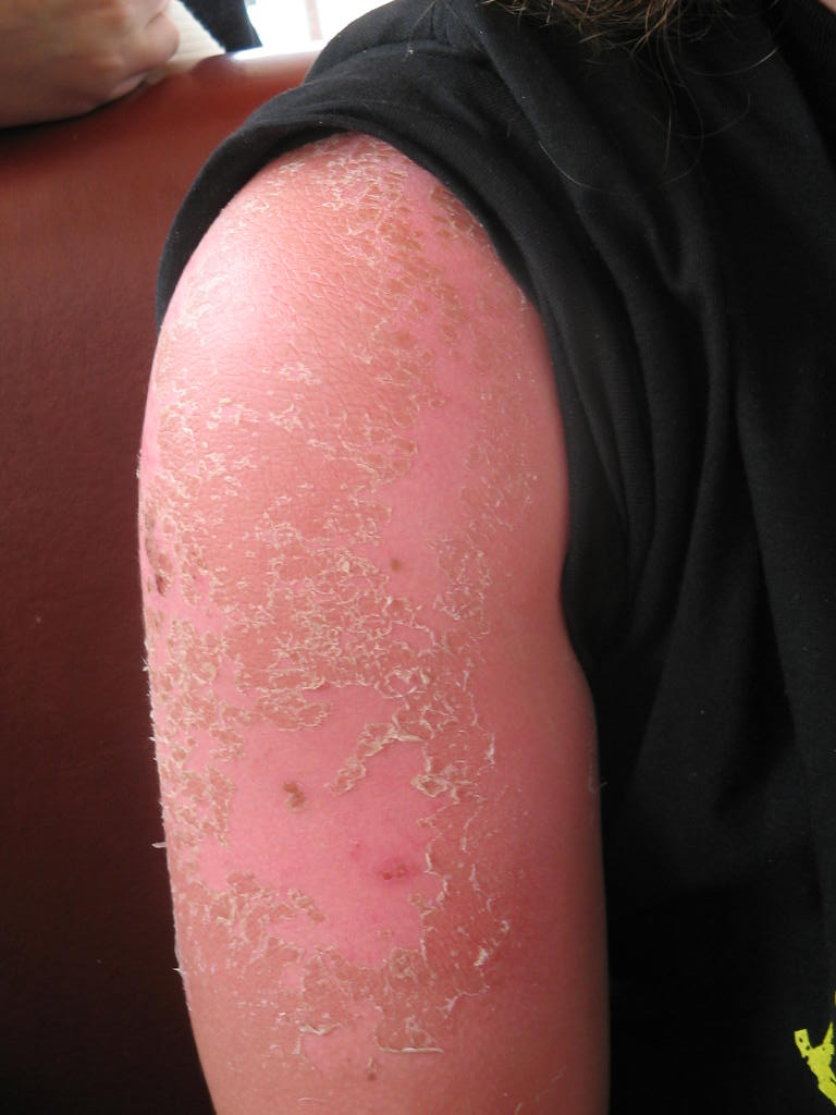 A peeling, scabbing sunburn. Image taken by me.